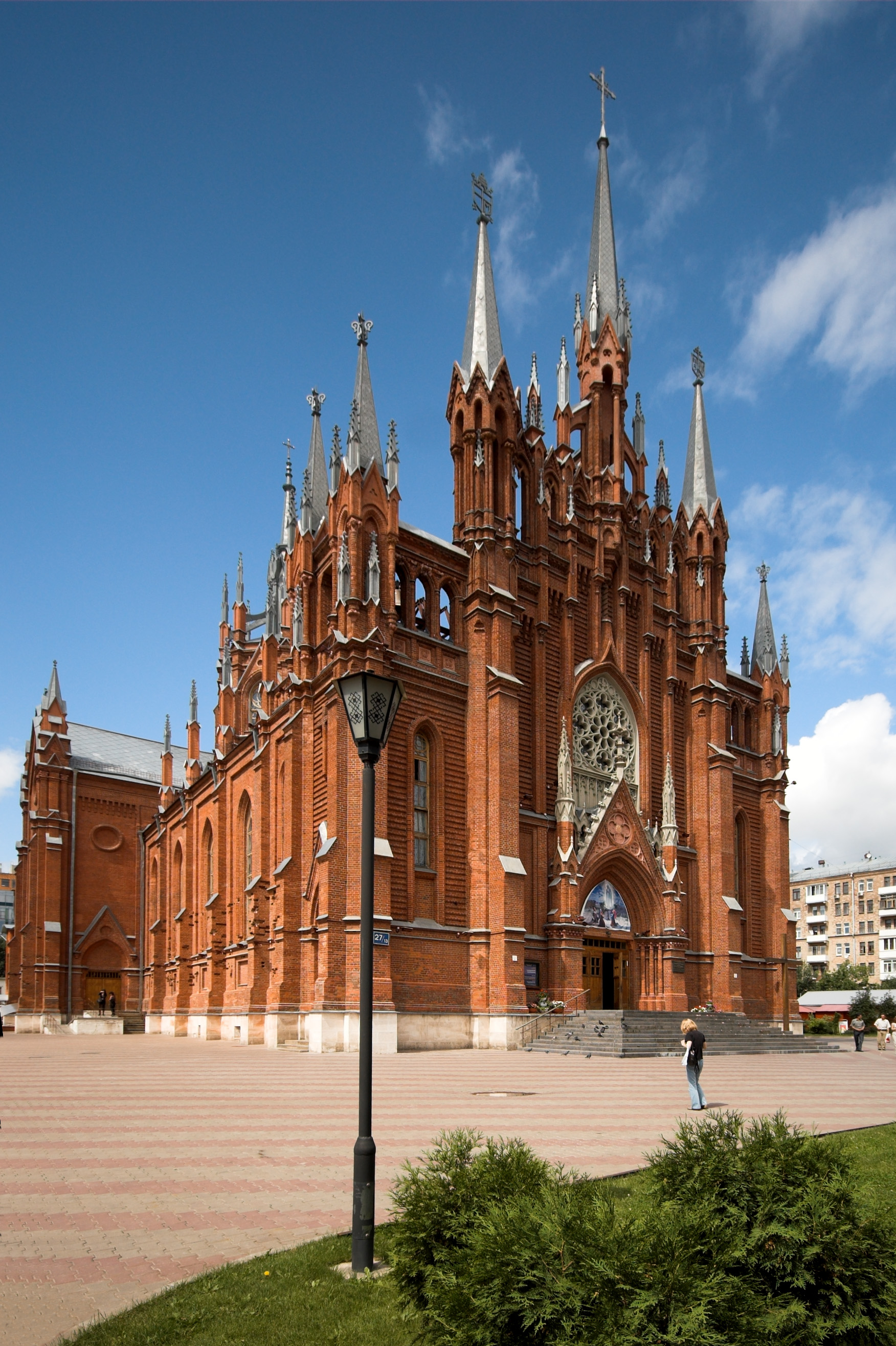 Gothic architecture, Roman Catholic Church of Immaculate Conception. 27/13, Malaya Gruzinskaya Street, Moscow, Russia.